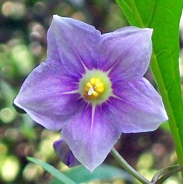 Solanum aviculare flower, Chatswood West